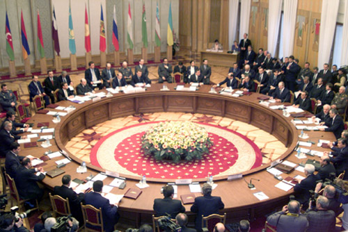 INSK. An expanded meeting of the CIS Council of Heads of State.